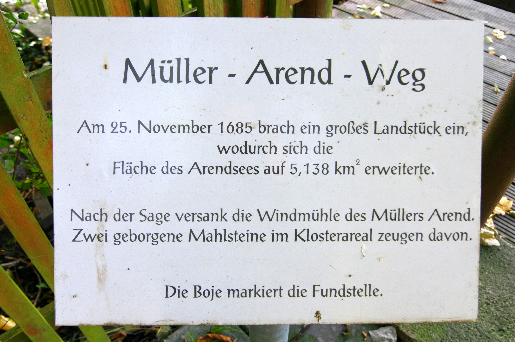 Sign on the south-eastern bank of the lake Arendsee in Germany. The German inscription tells about a (repeated) collapse of the ground in 1685, in which the lake's surface increased to its current form and area. In this event, the mill of the village sank in the lake. Later, two millstones were recovered. The point in the water is marked with a buoy.